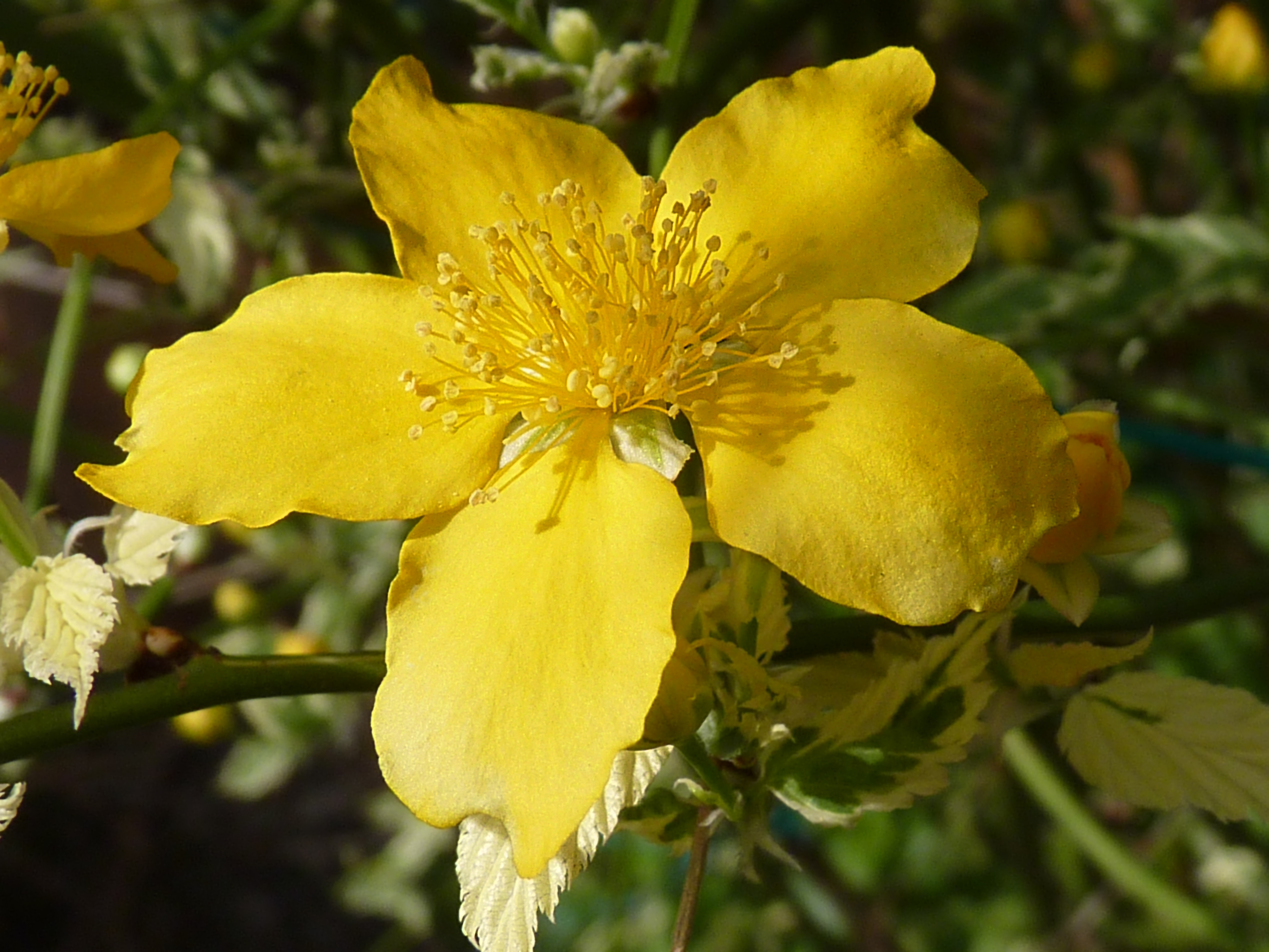 Kerria japonica 'Picta', in a garden in Belgium.